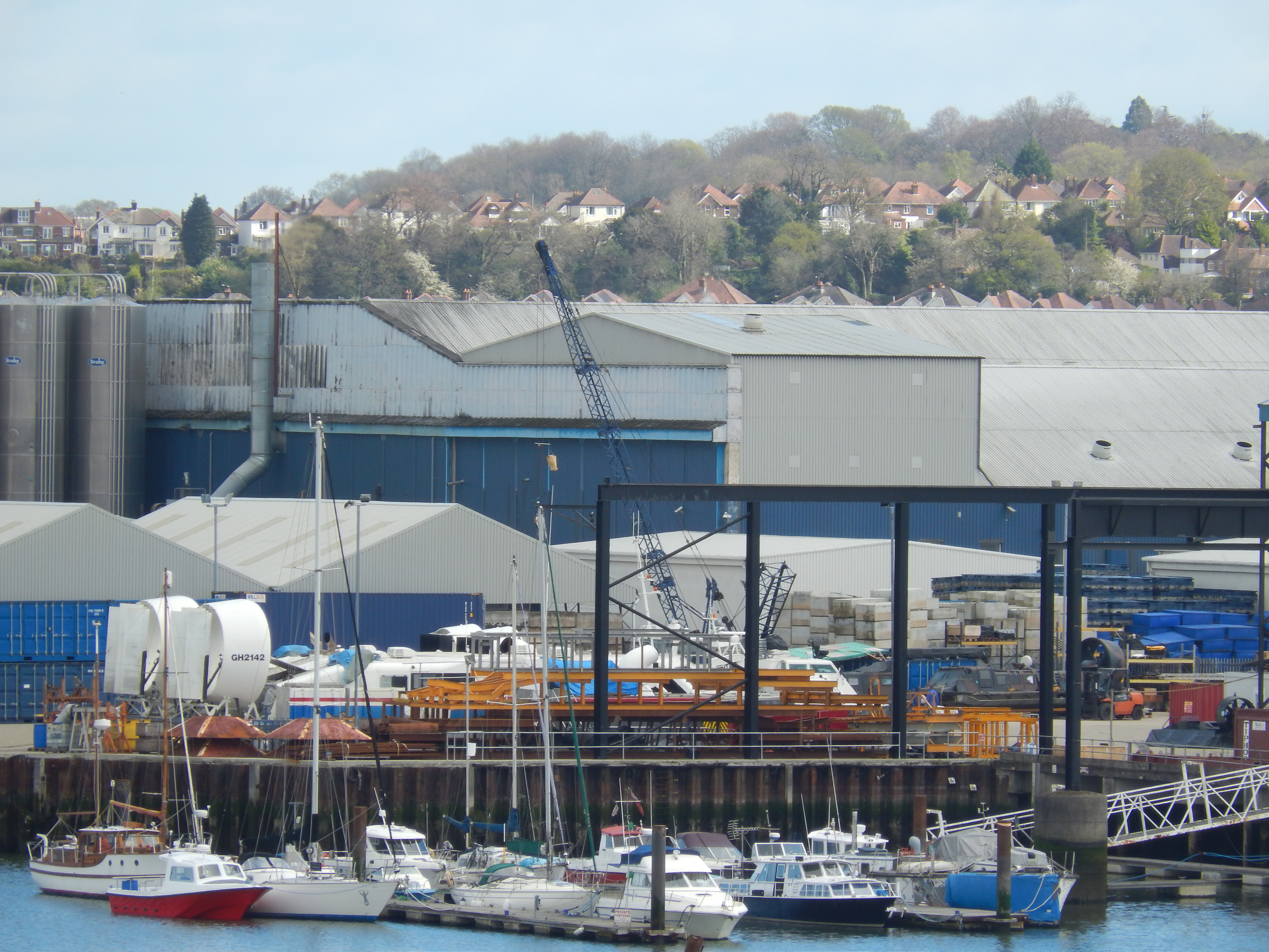 Griffon Hoverworks, Southampton, seen from Itchen Bridge.